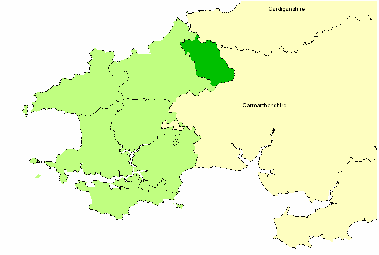 Map showing the ancient Hundred of Kilgerran in Pembrokeshire